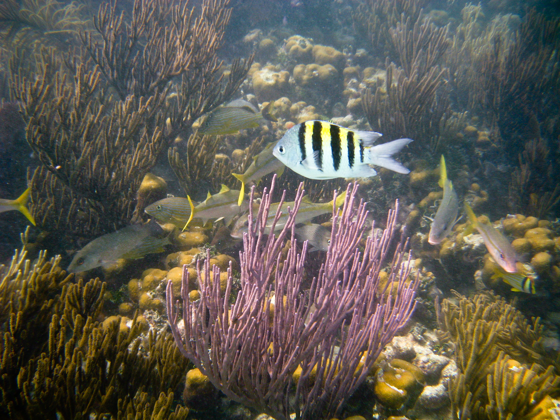 Submberged Resources of Dry Tortugas National Park National Park Service Photo taken by John Dengler